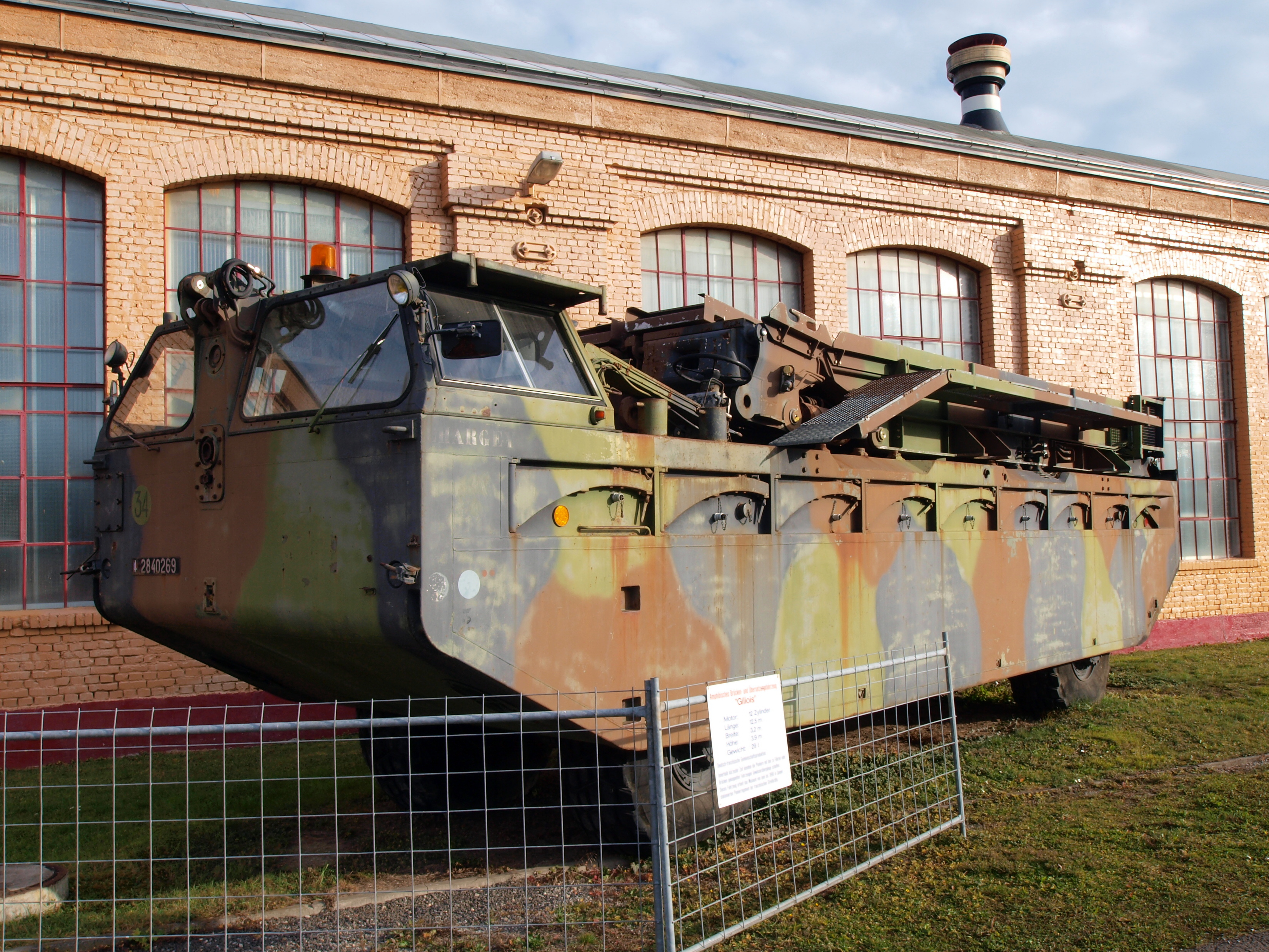 Photographed at the Technik Museum Speyer, Germany.